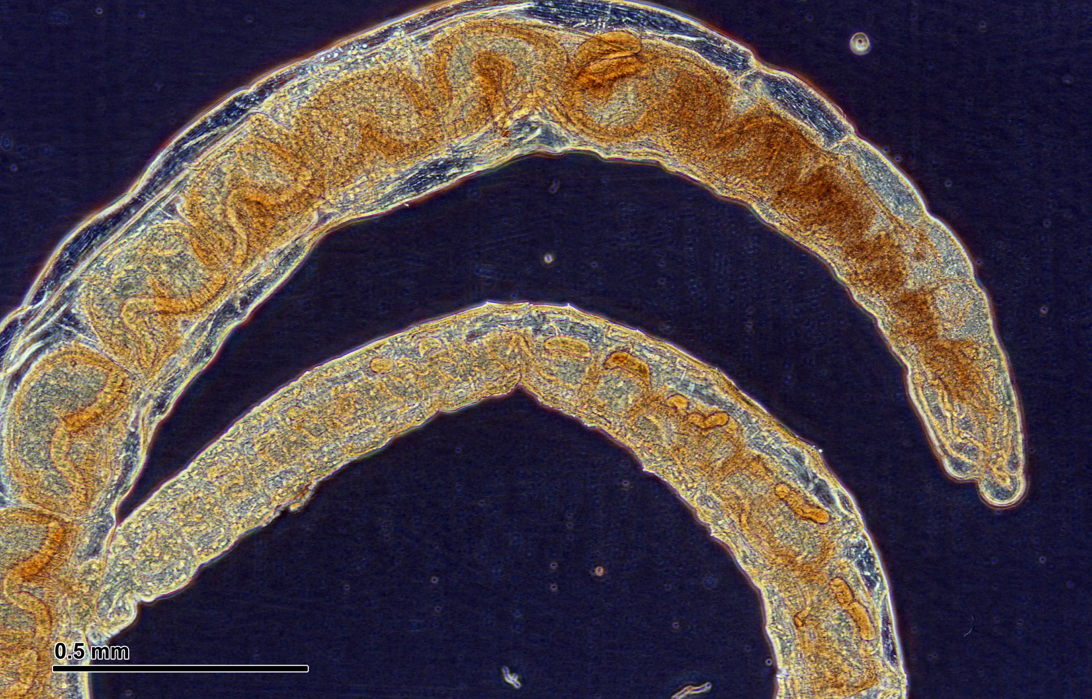 Sludge worm (Tubifex tubifex): Total preparation. Optical microscopy technique: Negative phase contrast. Magnification: 120x (for picture width 26 cm ~ A4 format).